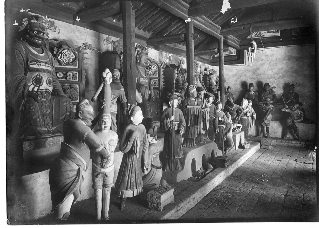 Creator: Sowerby, Arthur de Carle 1885-1954 Subject: Chong shan si (Taiyuan, Shanxi Sheng, China) Type: Black-and-white photographs Topic: Hell--Buddhism Local number: SIA RU007263 [SIA2008-3139] Cite as: RU 7263 - Arthur de Carle Sowerby Papers, 1904-1954 and undated, Smithsonian Institution Archives Place: Shanxi Sheng (China) Persistent URL:Link to data base record Repository:Smithsonian Institution Archives View more collections from the Smithsonian Institution.